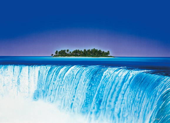 Italian Art Directors Club - 1990 Award